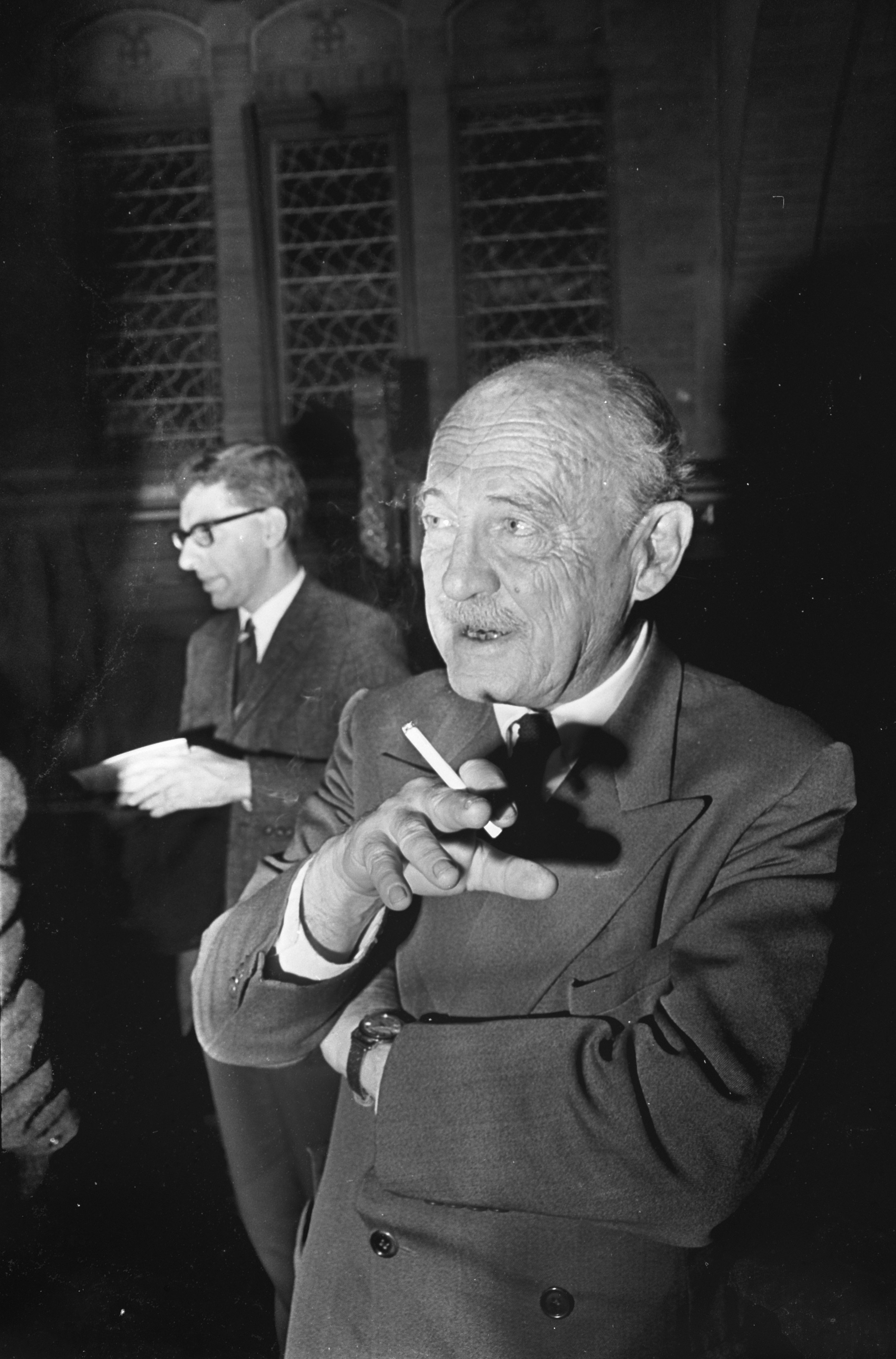 Owen Lattiomore during Ti-Ch'in (Teach-in on China) in the Koopmansbeurs, Amsterdam (the Netherlands)